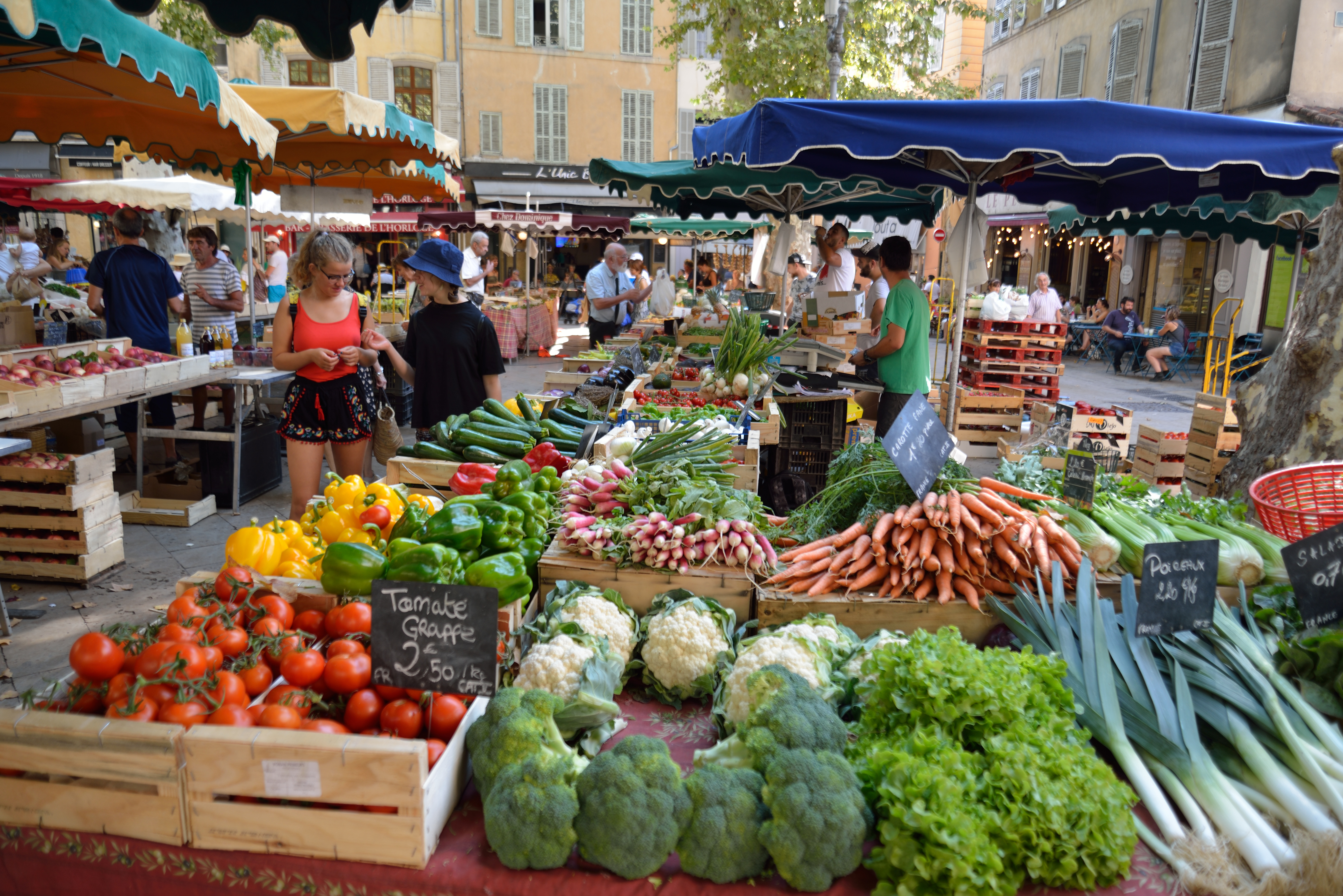 Food Market at Place Richelme in Aix-en-Provence